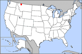 Locator map for Blackfeet Indian Reservation altered from PD map by rmhermen